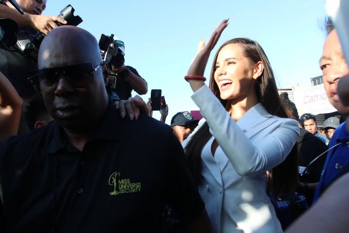 Miss Universe 2018 Catriona Elisa Gray is mobbed by well-wishers shortly upon her arrival at the hangar of Ninoy Aquino International Airport Terminal 4 in Pasay City on Wednesday (December 19, 2018).